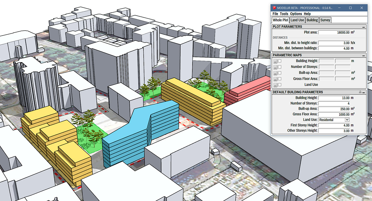 Screenshot of Modelur Beta with demo development.